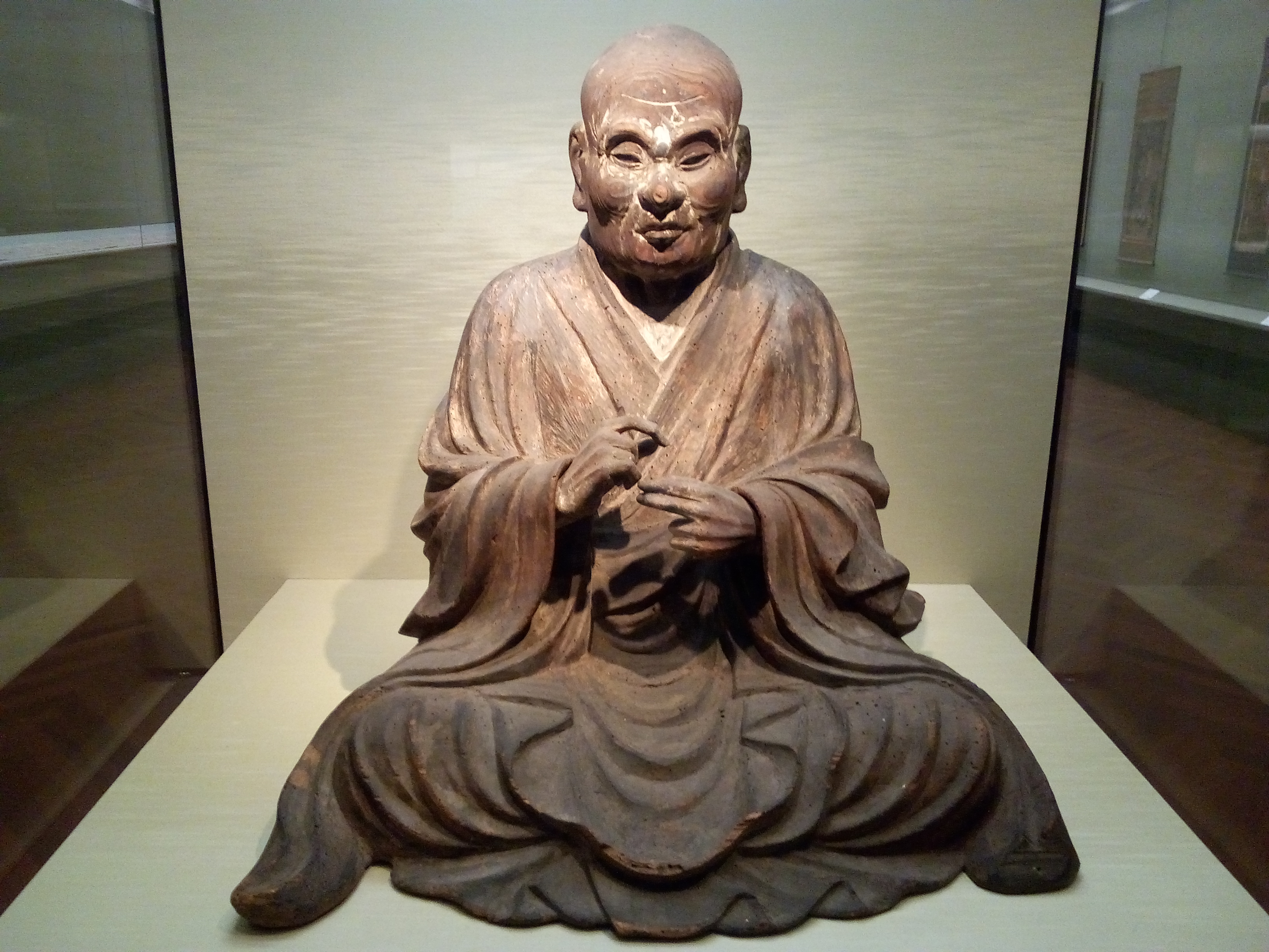 Seated Jie Daishi (Priest Ryogen), By Renmyo, Kamakura period, dated 1286 (Important Cultural Property, Lent by Kongourinji, Shiga)